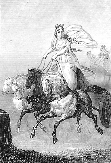 Painting of Cynisca by Sophie de Renneville, Published in From Mme. De Renneville, Biographie des femmes illustres de Rome, de la Grèce, et du Bas-Empire (Paris: Chez Parmantier, Libraire, 1825)